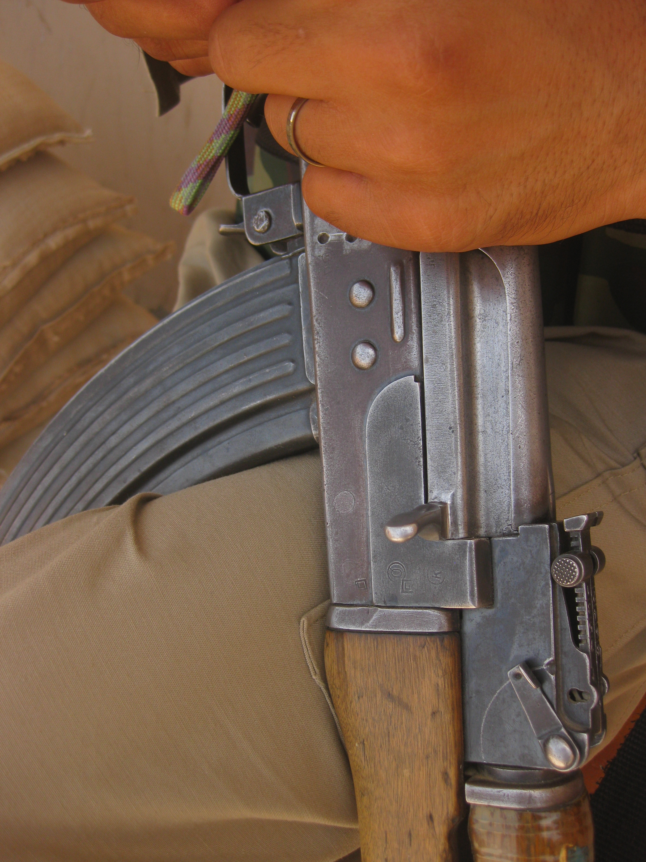 AK-47 Type 1 Receiver in Nangarhar Province.